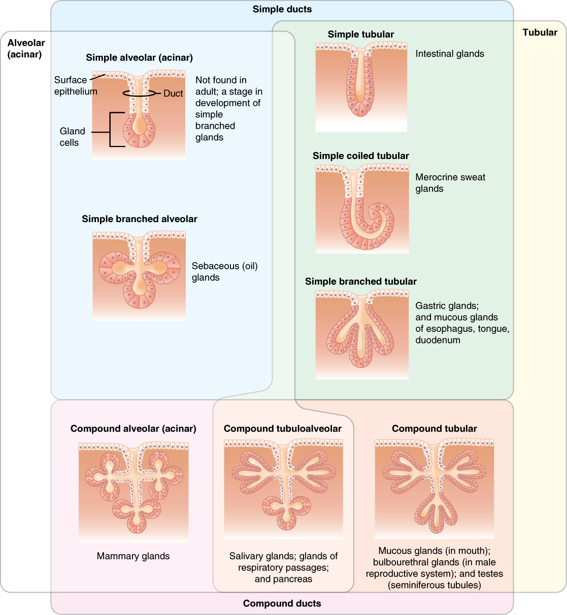 Illustration from Anatomy & Physiology, Connexions Web site. Jun 19, 2013.